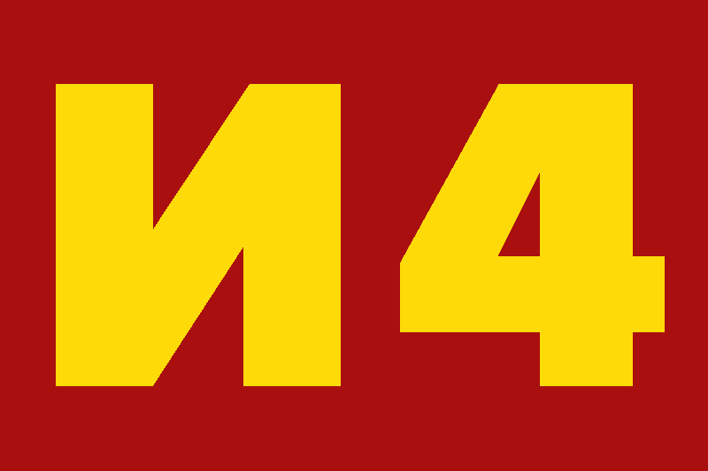 Flag of the civic initiative "Ilinden 4"